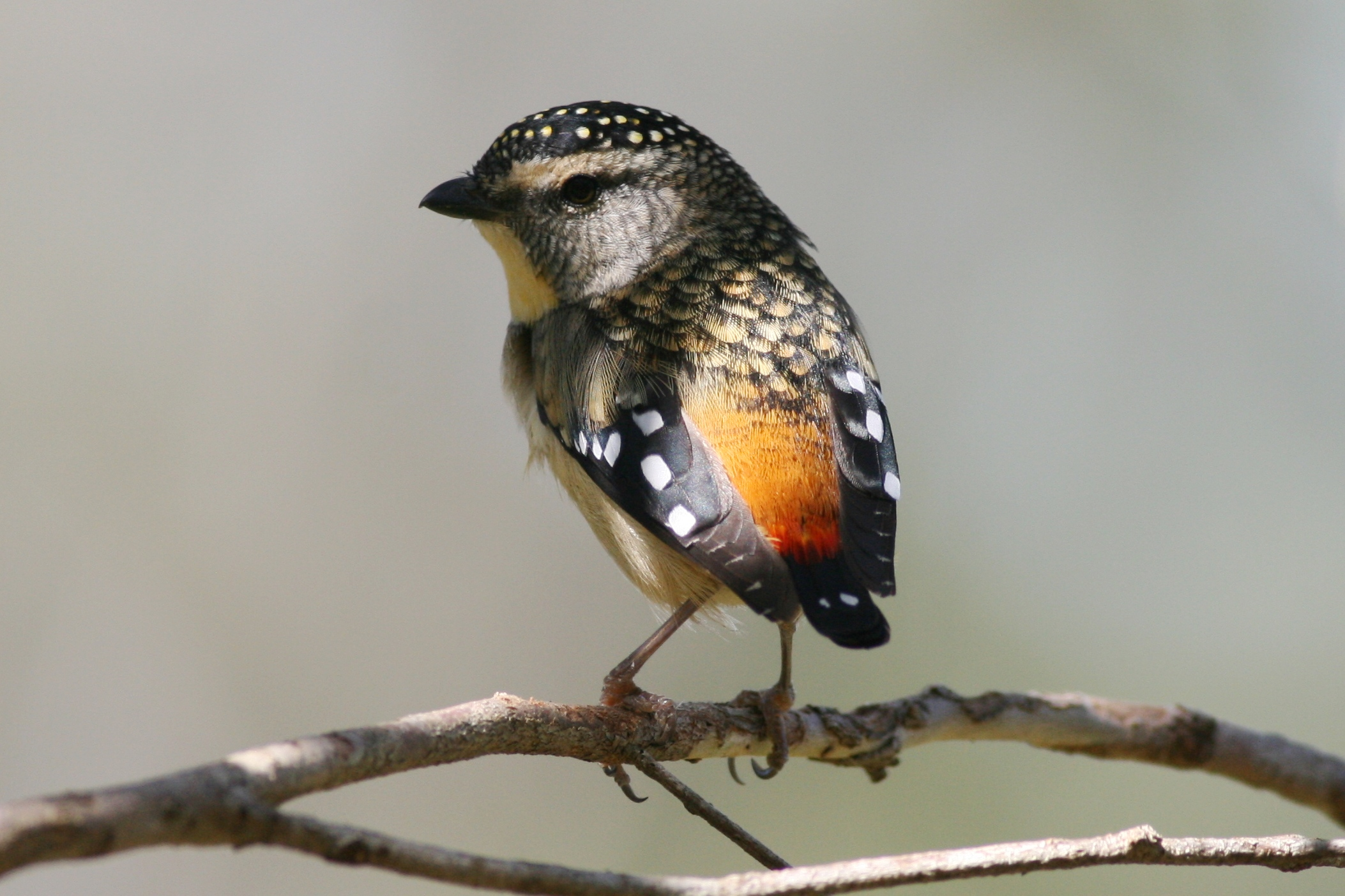 Male Spotted Pardalote (Pardalotus punctatus) near Toowoomba, Queensland, Australia. Photographed on